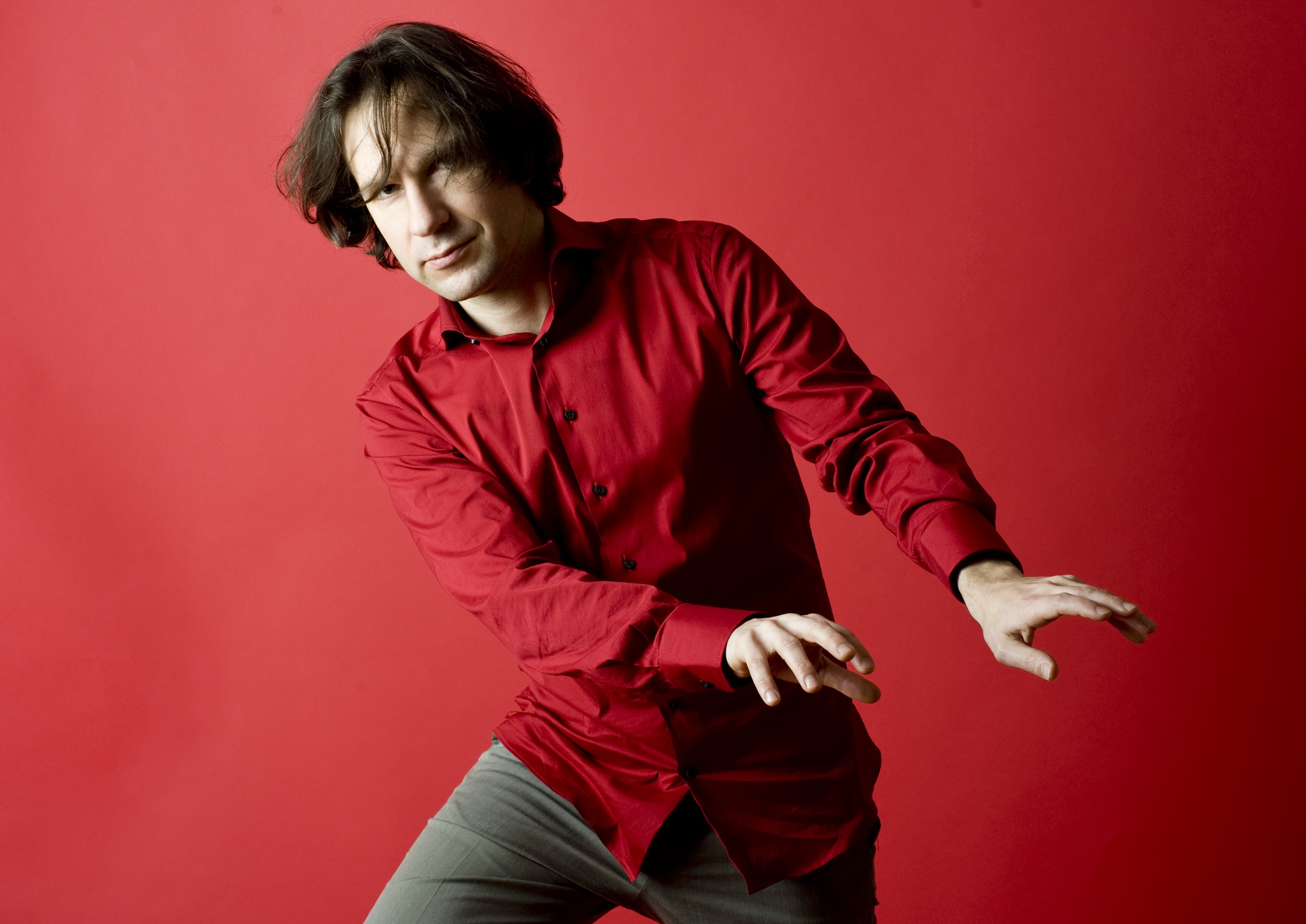 Portrait Christopher Hinterhuber by photographer Nancy Horowitz in 2012